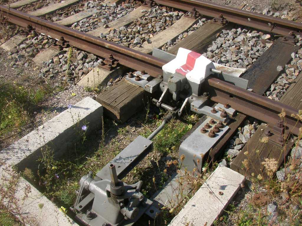 Photo taken by Miaow Miaow in September 2005